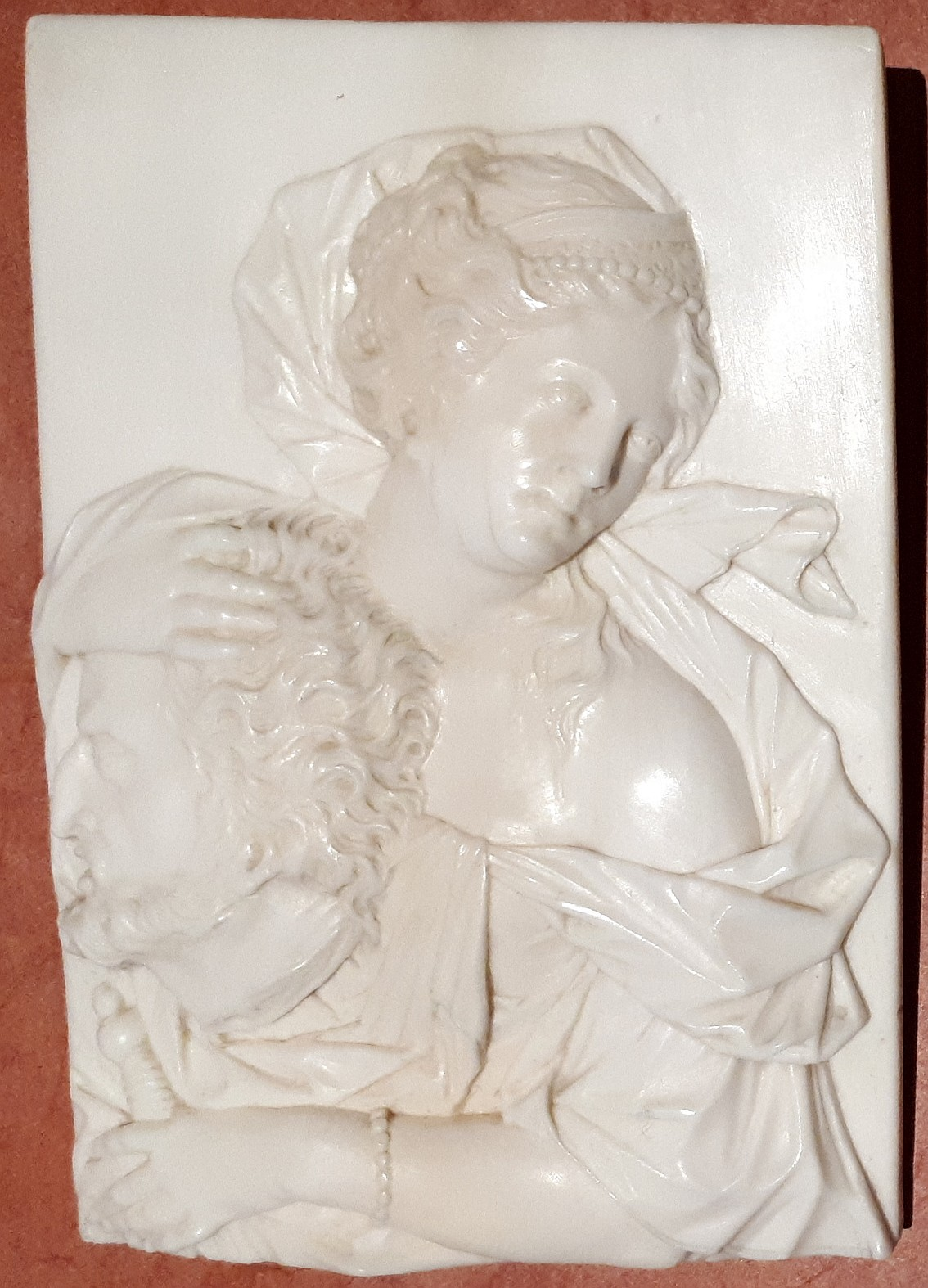 Minuiature Judith with the head of Holofernes from Francis van Bossuit (ivory); Bayrisches Nationalmuseum - here: Residenzschloss - Staatliche Kunstsammlungen Dresden